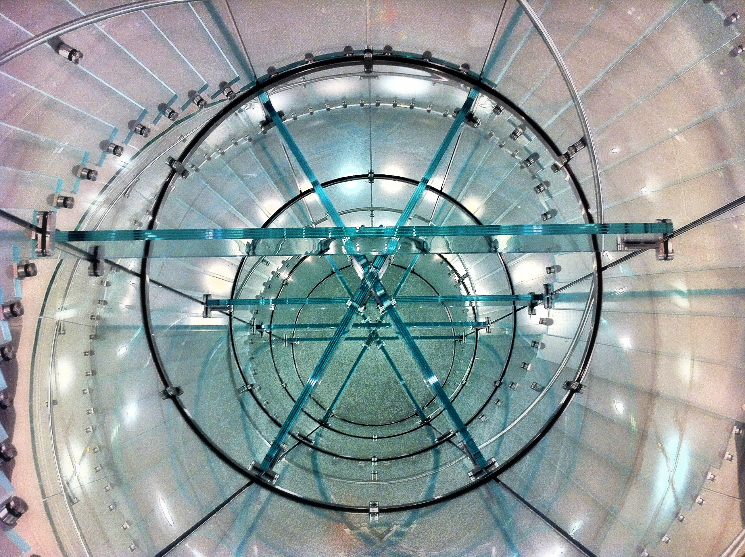 The glass circular staircase inside the Apple Store in Boston, Massachusetts.